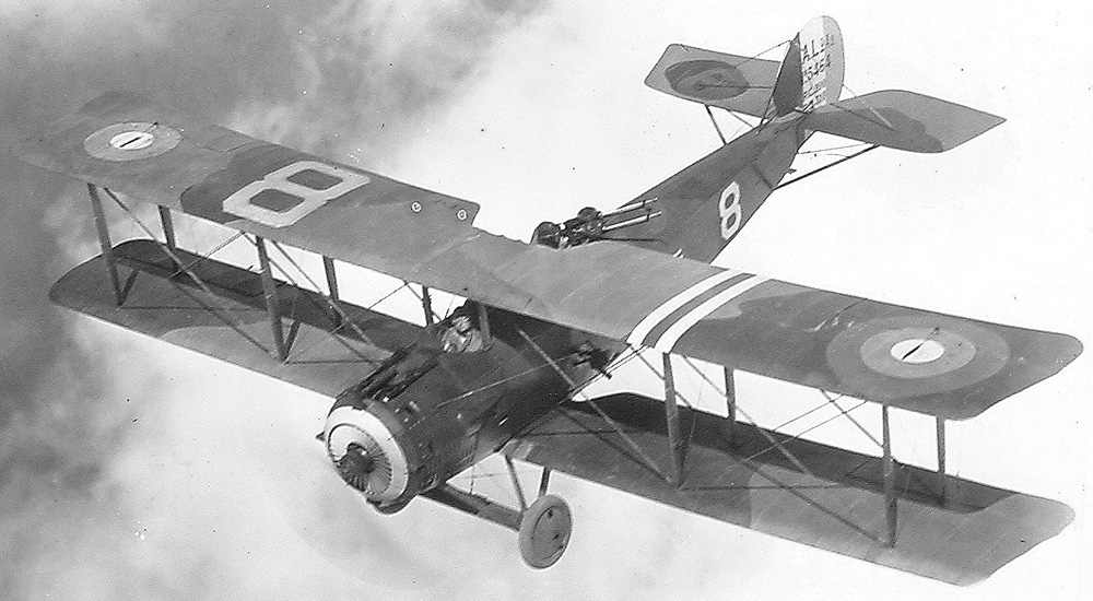 Photo of Salmson 2 WW1 recon aircraft samf4u.jpg